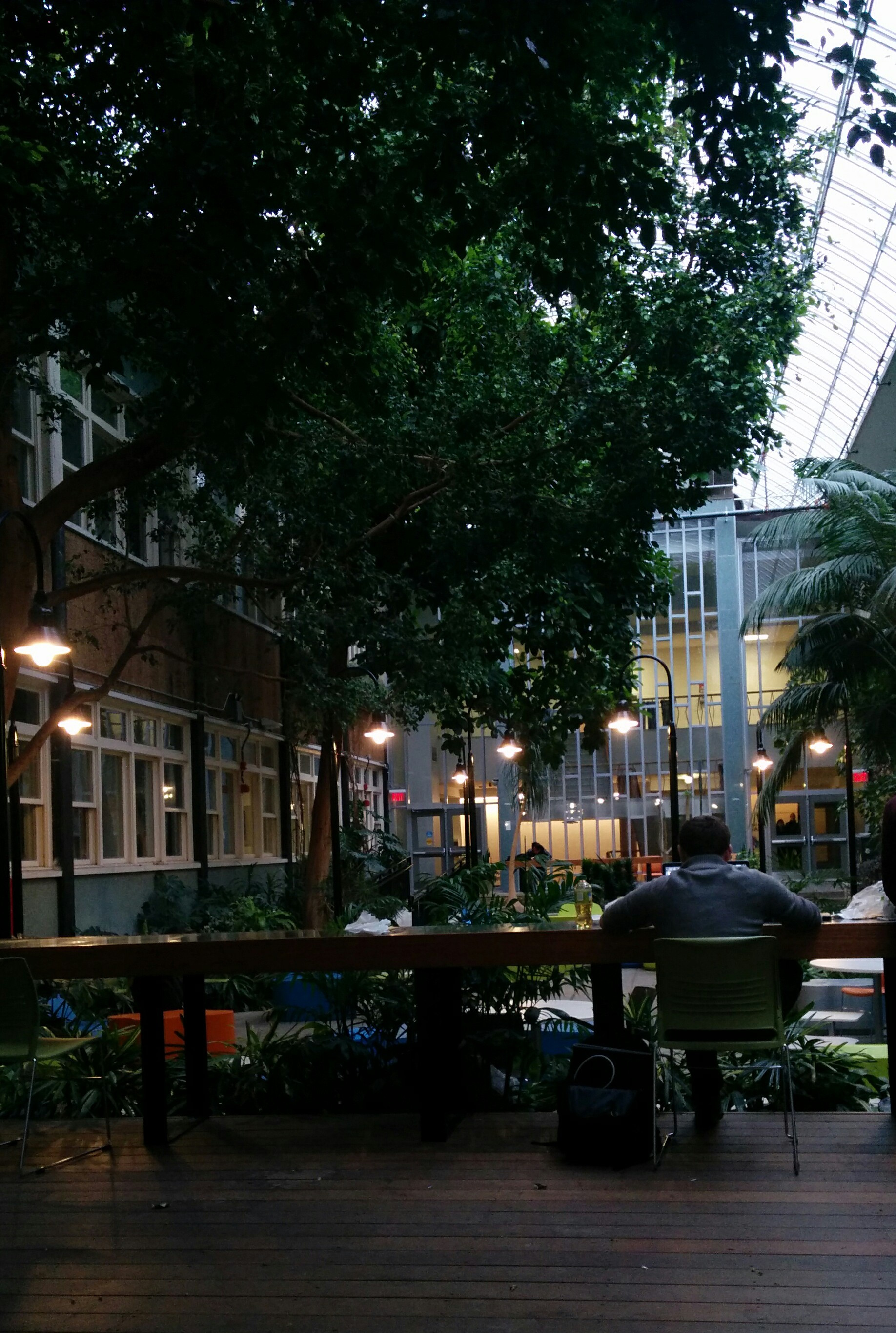 It was formerly called the Arts and Education Building and one of the oldest buildings on campus.